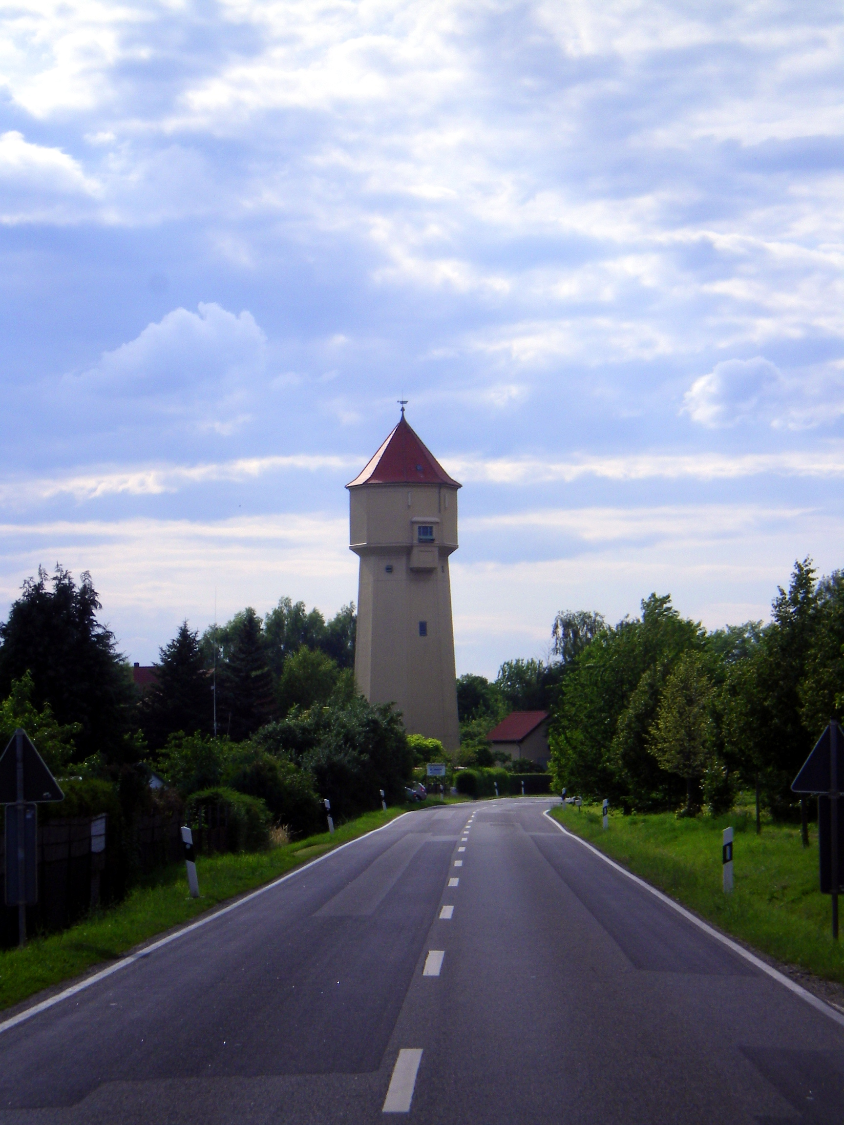 Water tower in Meuselwitz-Wintersdorf near Altenburg/Thuringia